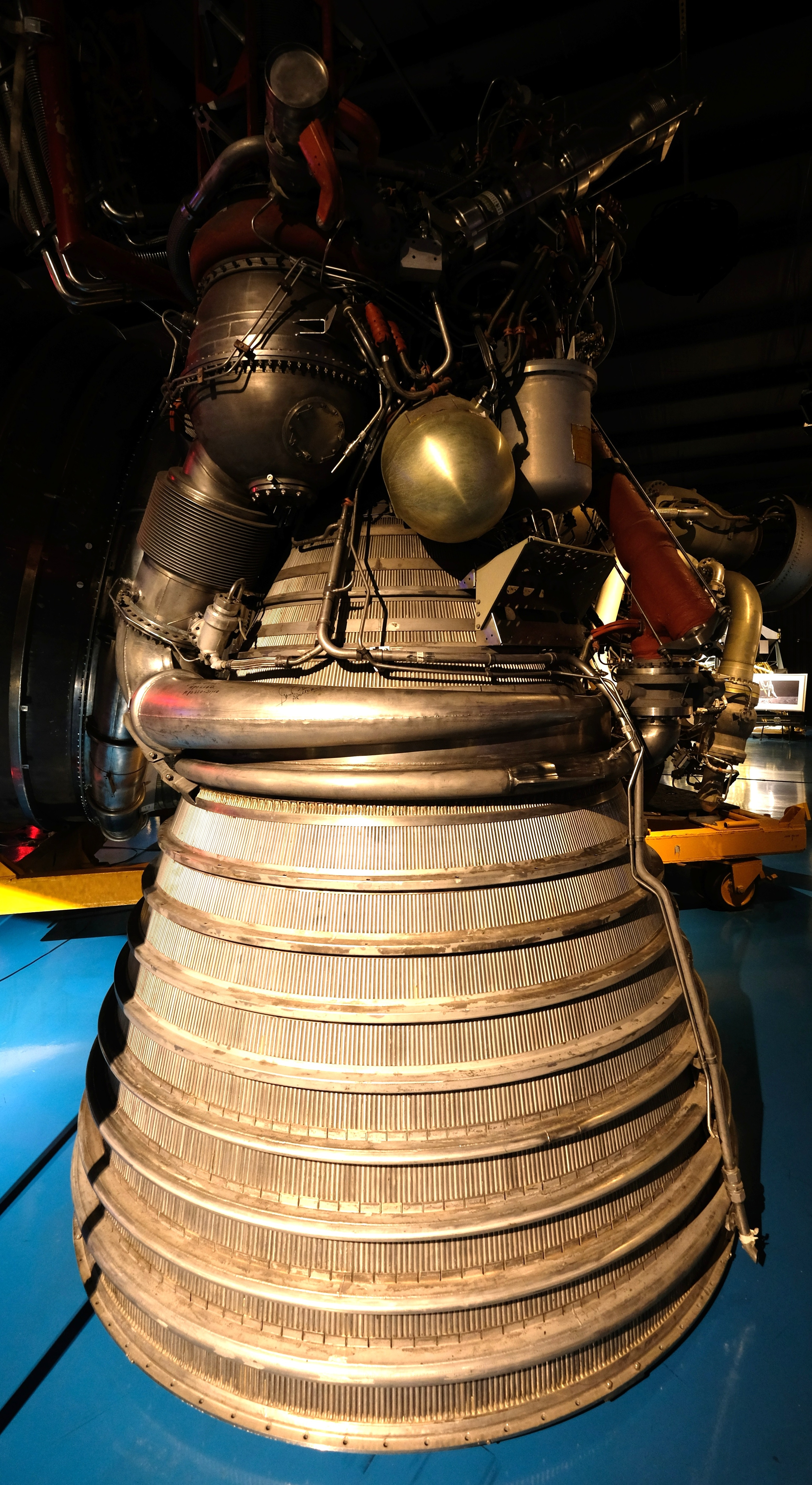 Rocketdyne’s J-2 was America’s largest production liquid hydrogen fueled rocket engine before the Space Shuttle main engines were developed and was a major component of the Saturn V rocket which supported the Apollo program and first took man to the moon. Five J-2 engines were used in the Saturn V second stage and one J-2 engine was used in the third stage. Each engine produced 1,033.1 kN (232,250 lbf) of thrust in vacuum.